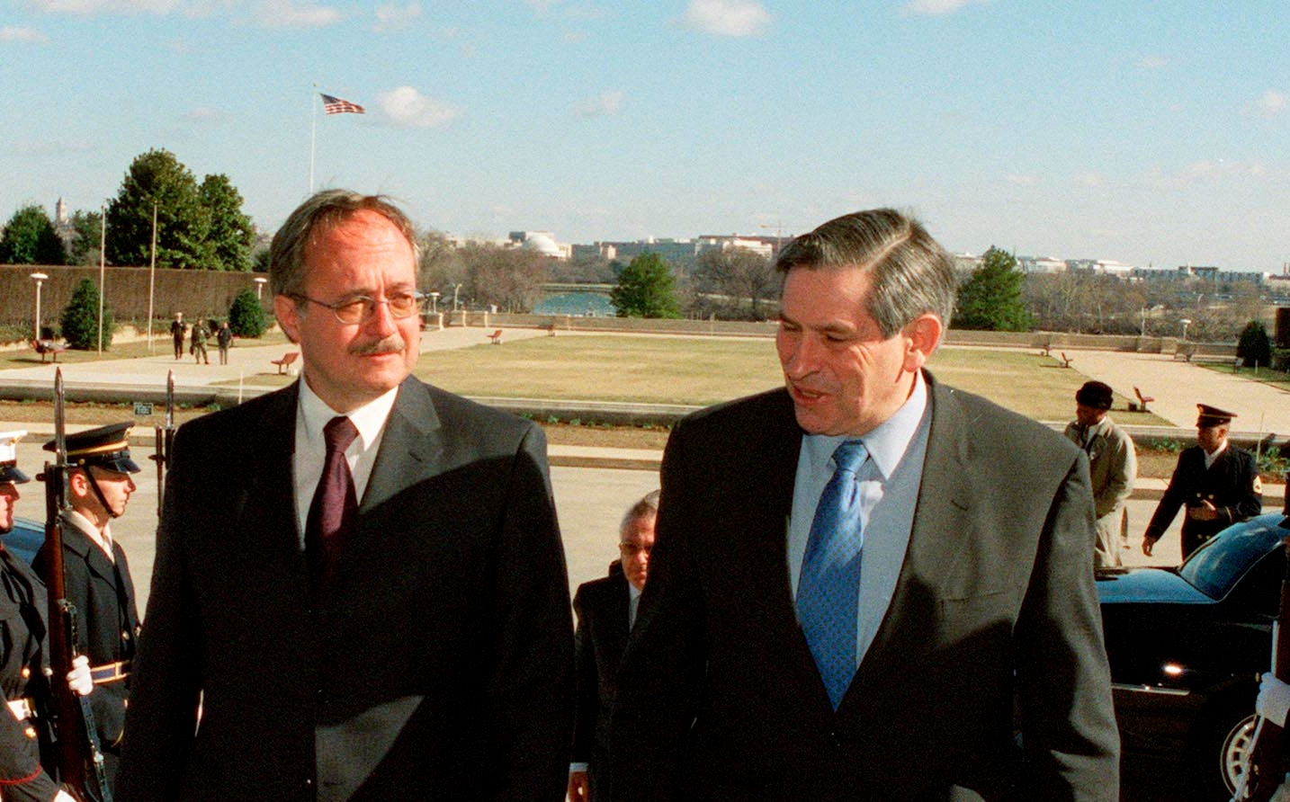 Chief, Federal Department of Defense Samuel Schmid (left), of Switzerland, is escorted through an honor cordon and into the Pentagon by Deputy Secretary of Defense Paul D. Wolfowitz (right) on Feb. 11, 2002. DoD photo by Helene C. Stikkel.